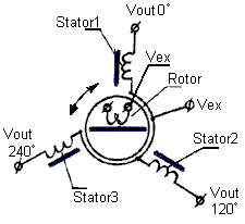 Dan Hoar modified an image found on and so this image is an original and I relinquish the rights to this image for public use.